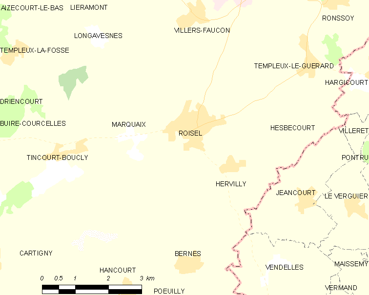 Map of French municipality Roisel